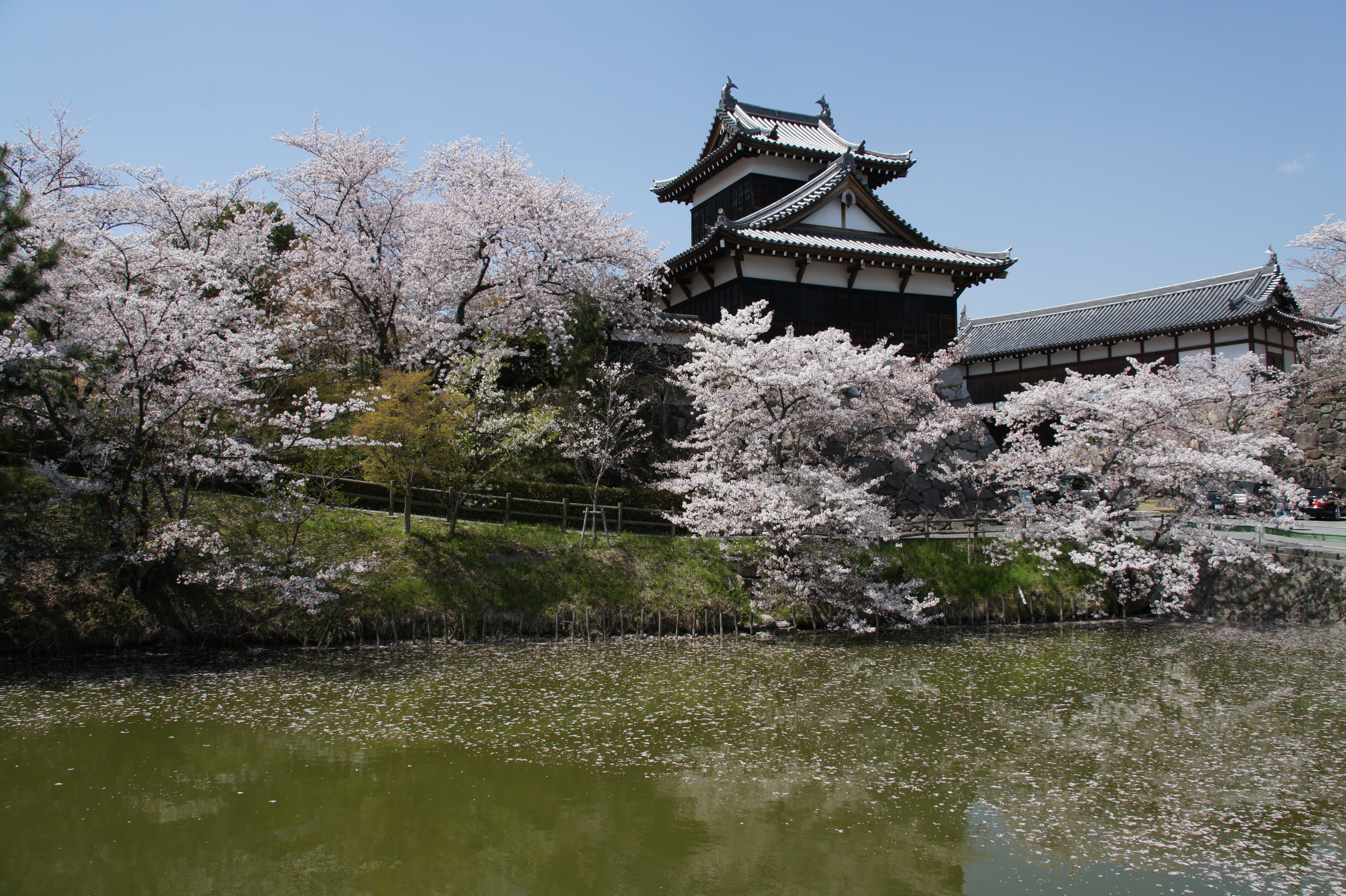 Yamato Koriyama Castle